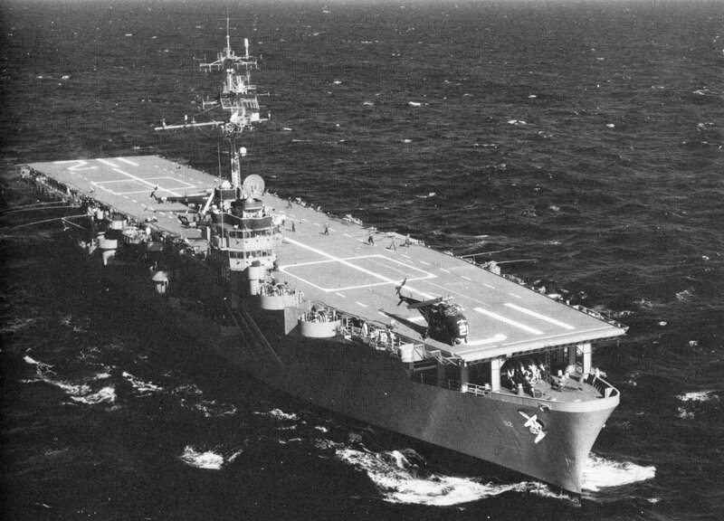 The U.S. Navy escort carrier USS Siboney (CVE-112) on 3 February 1956.